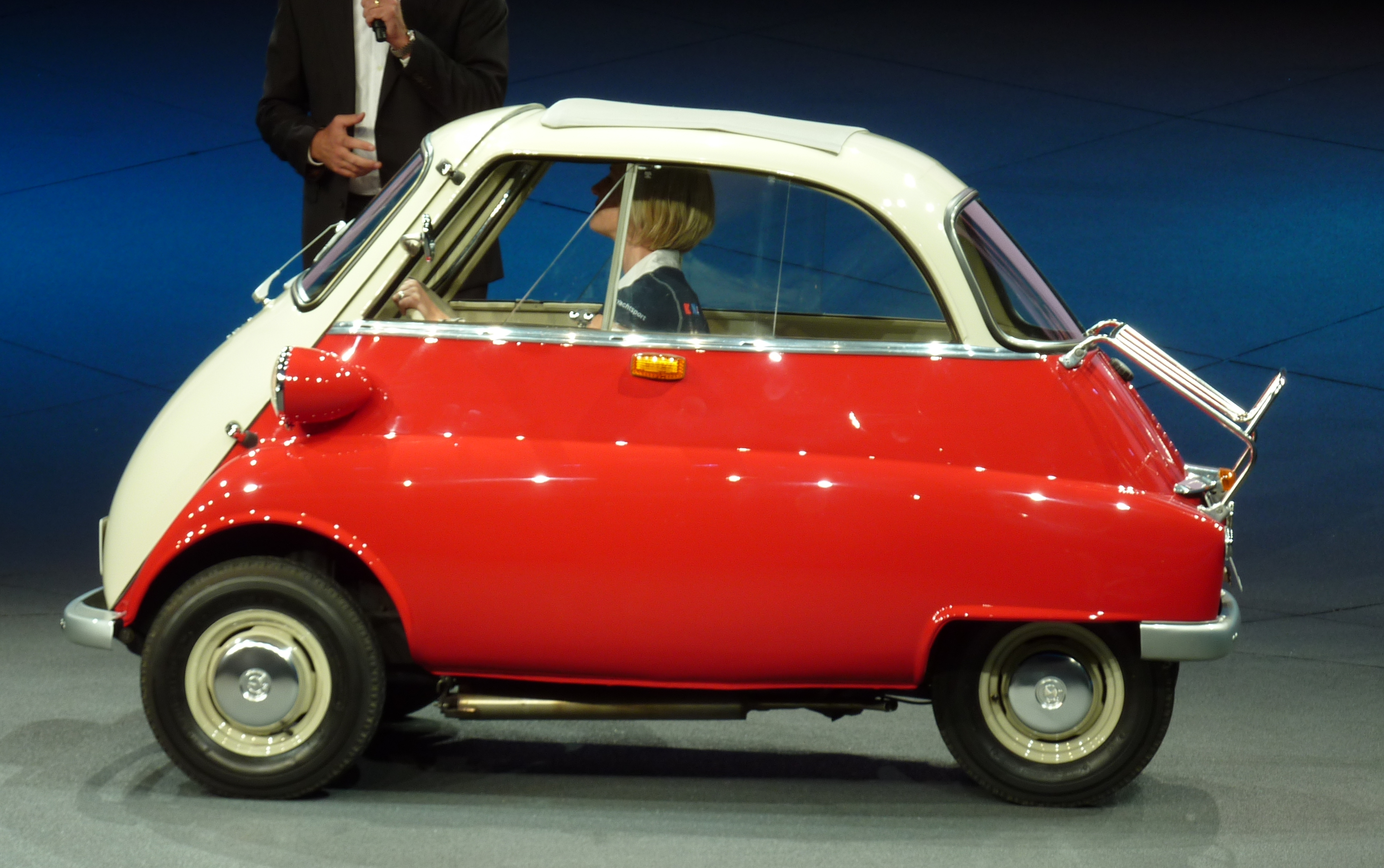 BMW-Isetta at IAA auto-show in Frankfurt, Germany